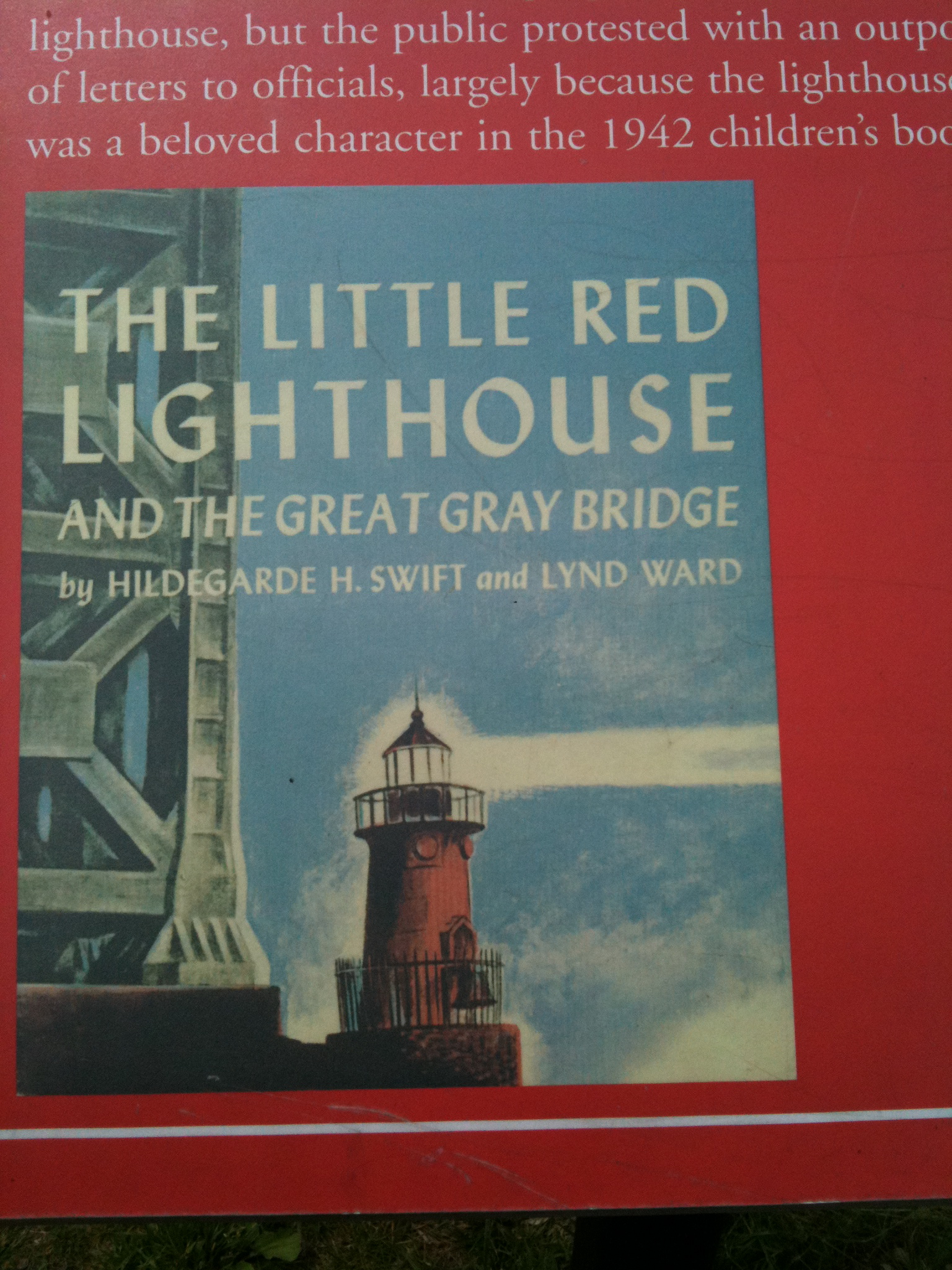 The Little Red Lighthouse sits beneath the George Washington Bridge on the Hudson River, separating Manhattan and New Jersey. This is the same lighthouse of which the children's book is based.